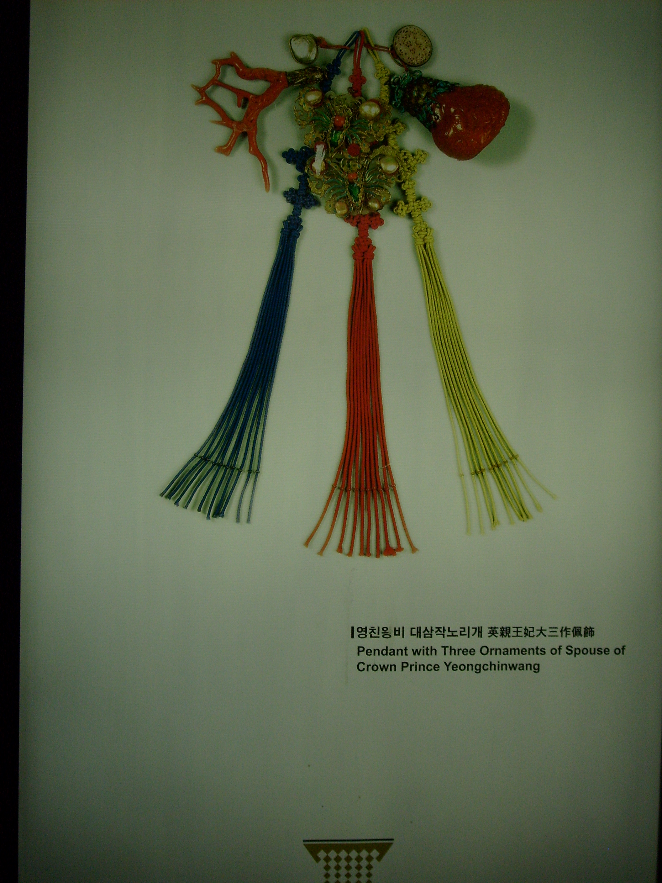 Female ornaments of Korea. Norigae. Three pairs of norigae called Samjak Norigae.